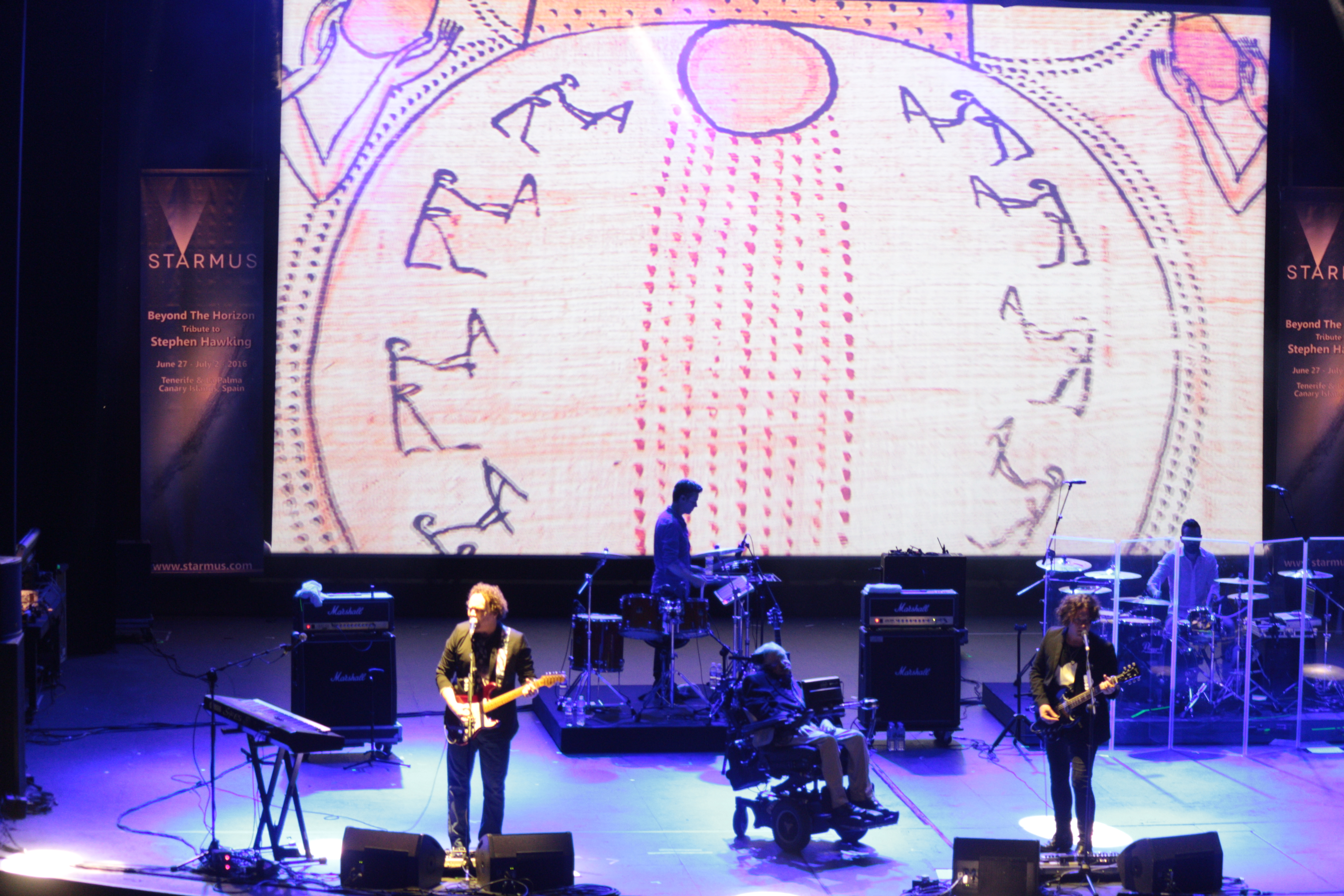 Starmus 2016. Tenerife, Canary Islands.